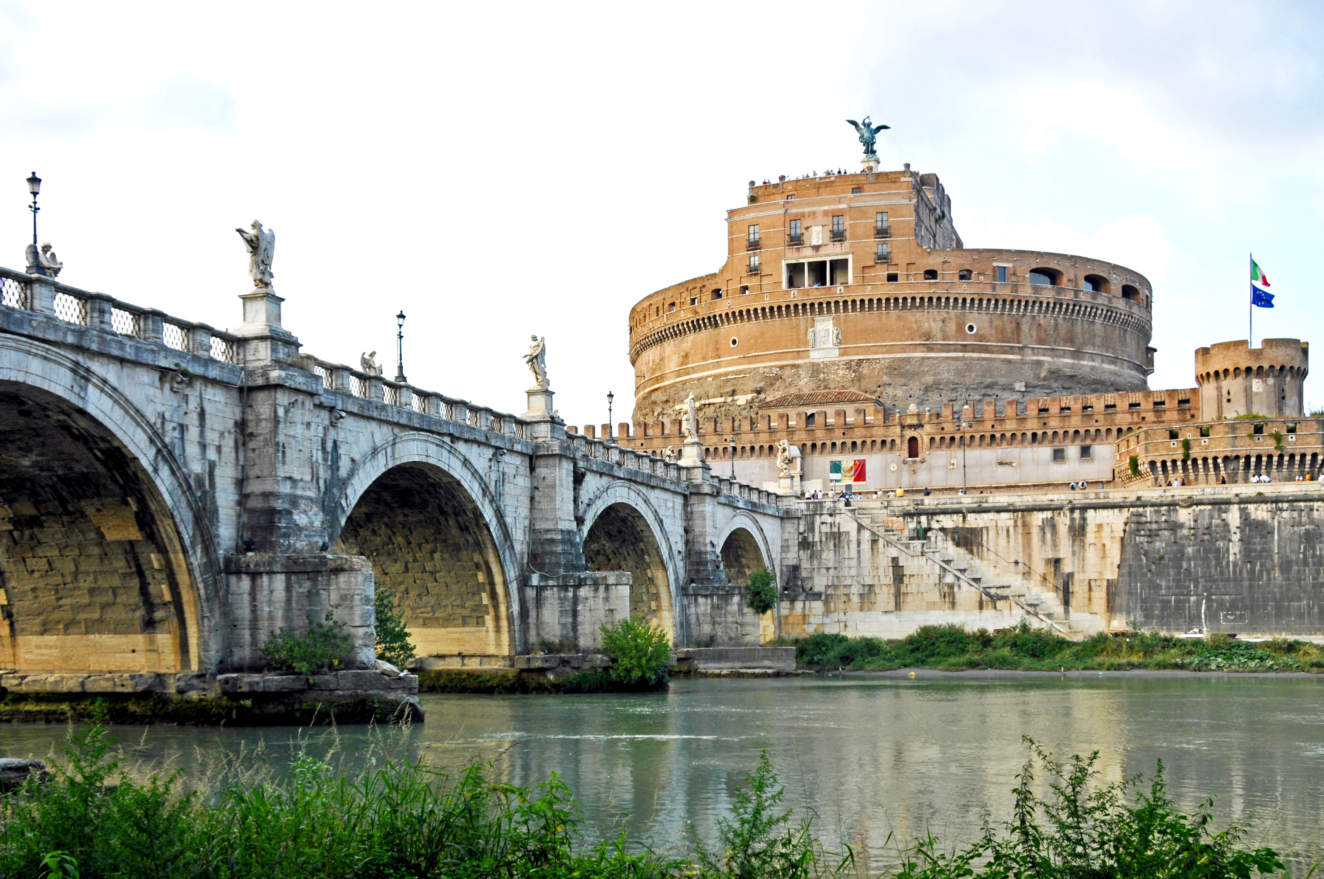 Ponte Sant'Angelo, once the Aelian Bridge meaning the Bridge of Hadrian, is a Roman bridge completed in 134 AD by Roman Emperor Hadrian, to span the Tiber, from the city center to his newly constructed mausoleum, now the towering Castel Sant'Angelo.